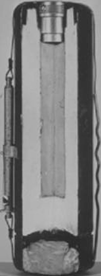 The M125 series sarin bomblet, which was contained in the M34 cluster bomb.